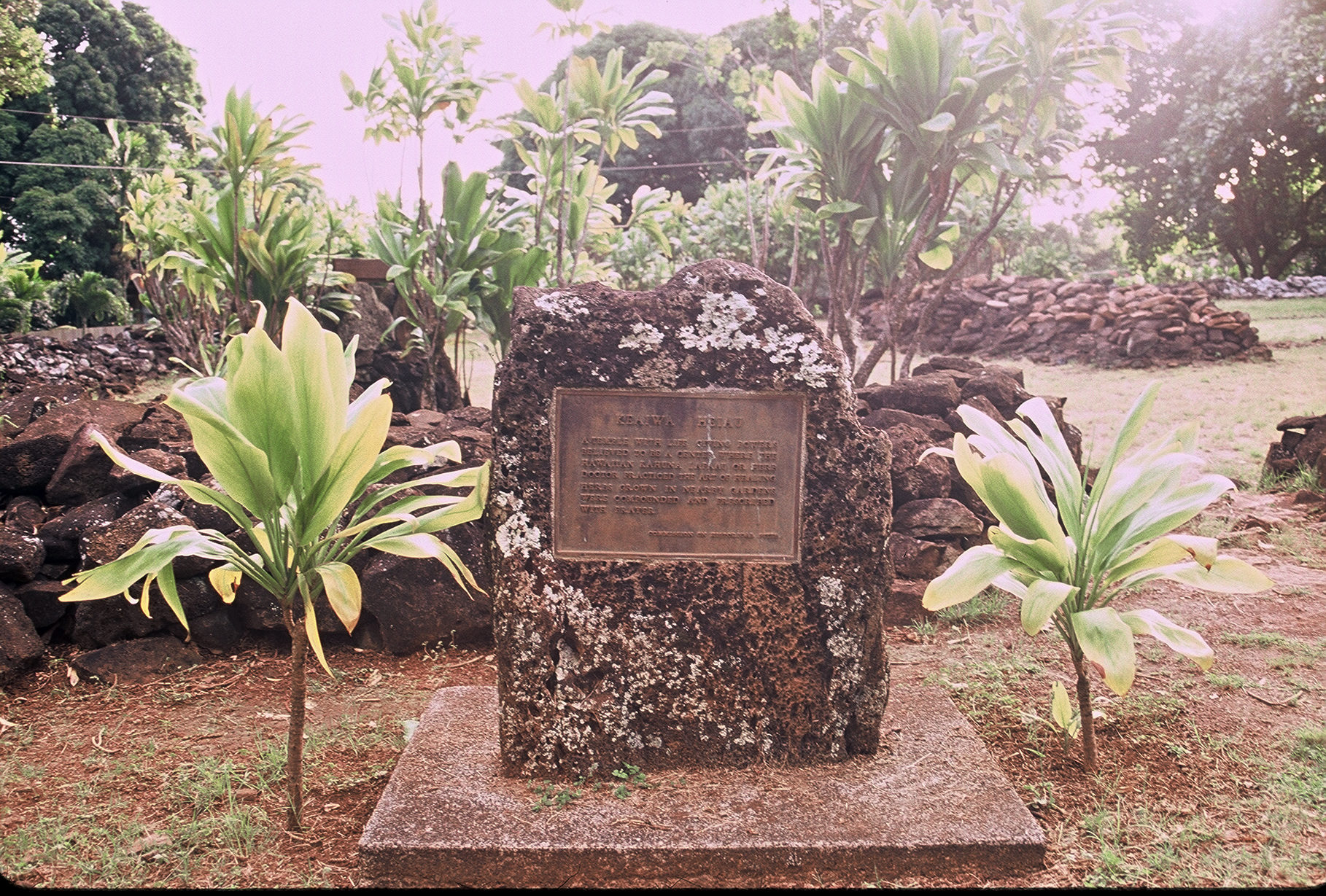 Plaque at Keaiwa Heiau on Oahu, Hawaii. Plaque reads: Keaiwa Heiau A temple with life giving powers believed to be a center where the Hawaiian kahuna lapaau or herb doctor practiced the art of healing. Herbs grown in nearby gardens were compounded and prescribed with prayer Commission on Historical Sites